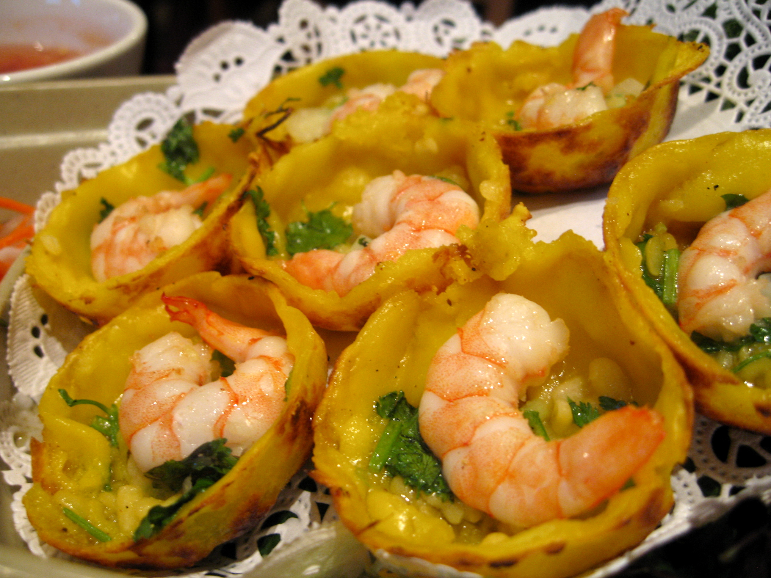 Brodard, Garden Grove, CA Banh khot - crispy little rice/tumeric/coconut based cups with cilantro and perfectly cooked shrimp. YUM.